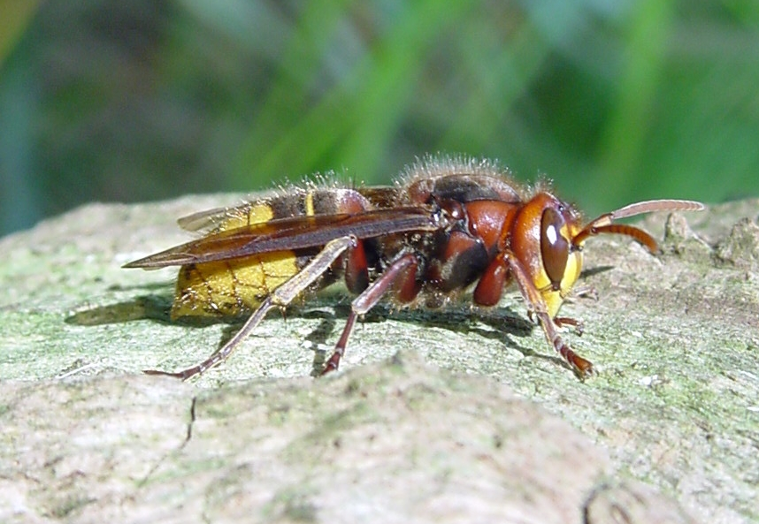 Hornet (Vespa crabro)(worker)(Netherlands)